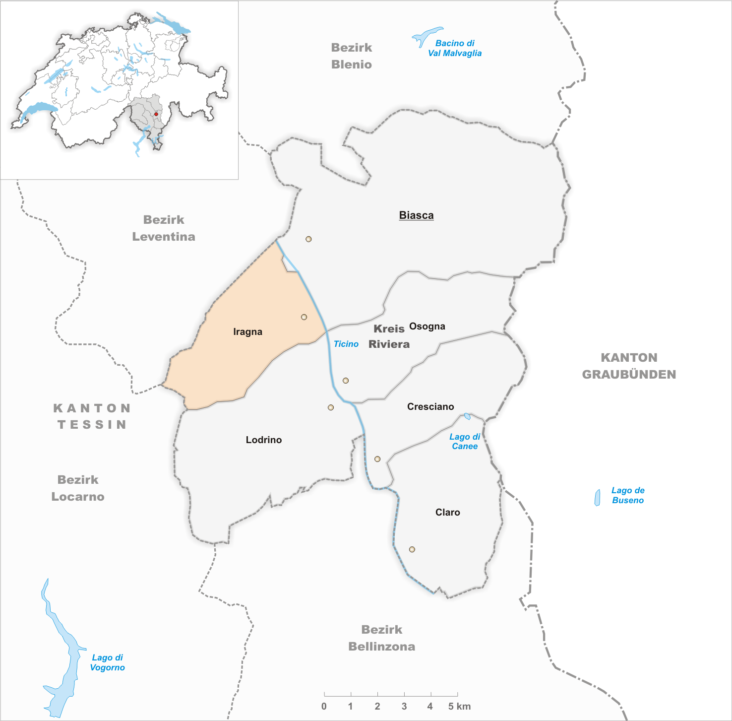 Municipality Iragna